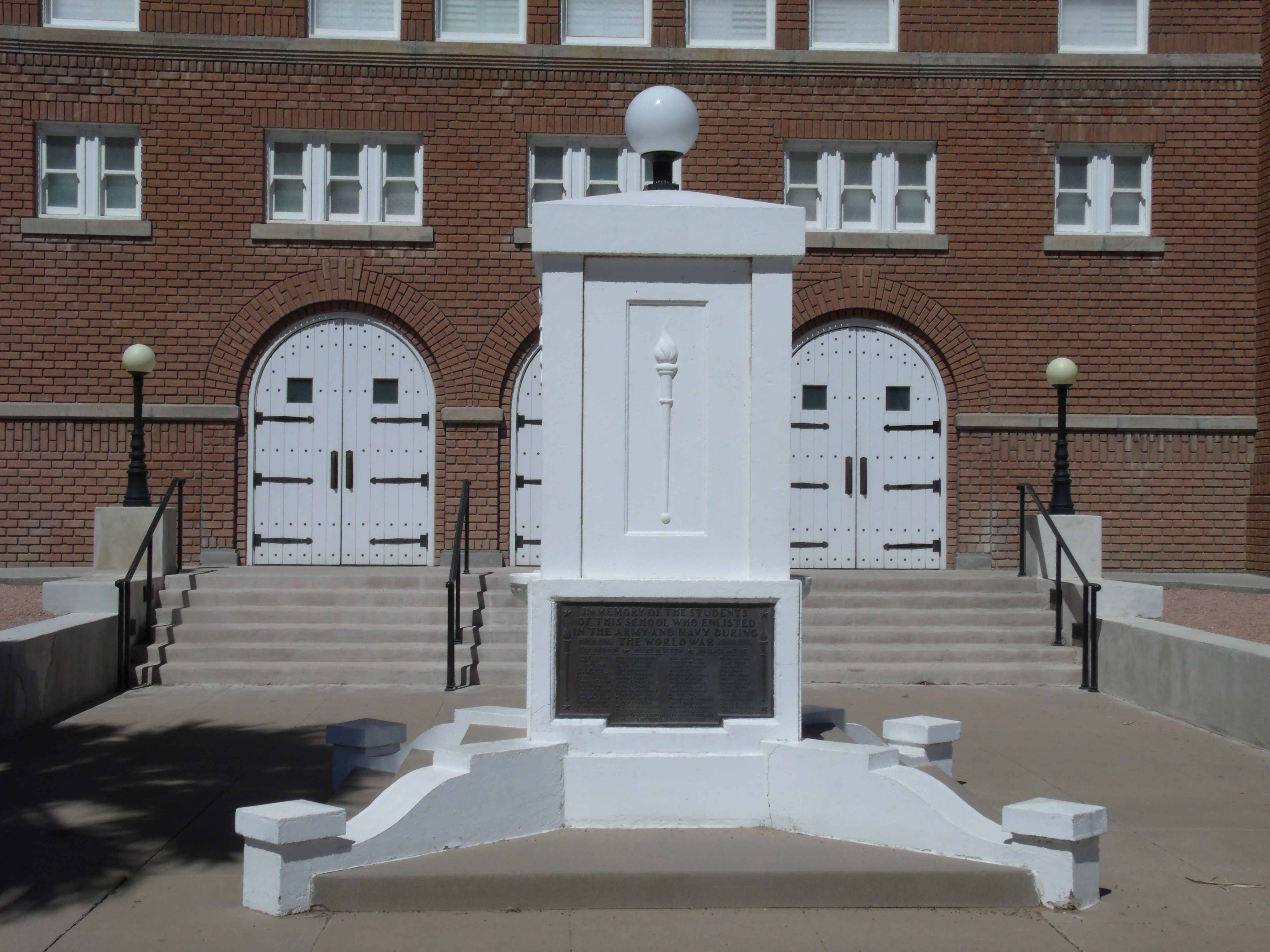 World War I memorial at the Phoenix Indian School, Arizona. Dedicated to the Native American WW I Veterans and deceased, who were alumni of the school.